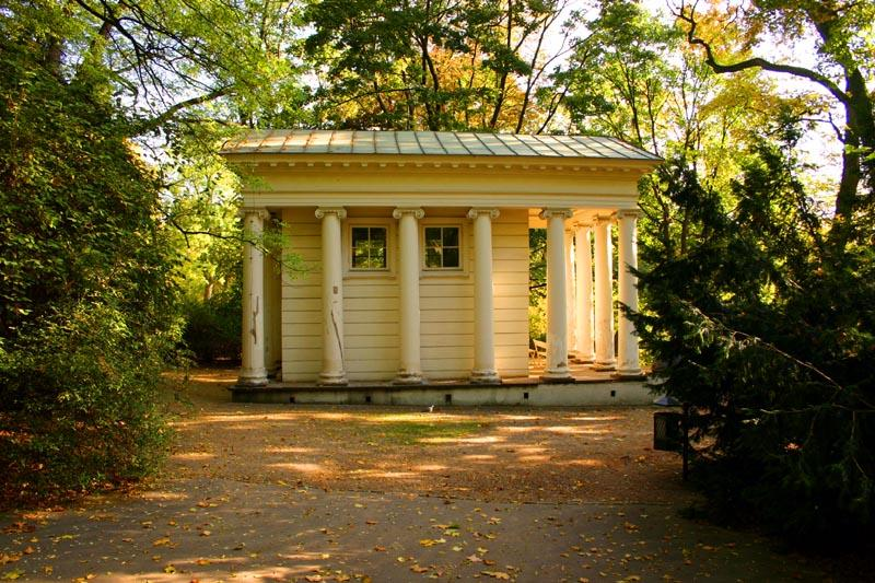 Lazienki Park in Warsaw with the permission of the authors Marek and Ewa Wojciechowscy from [